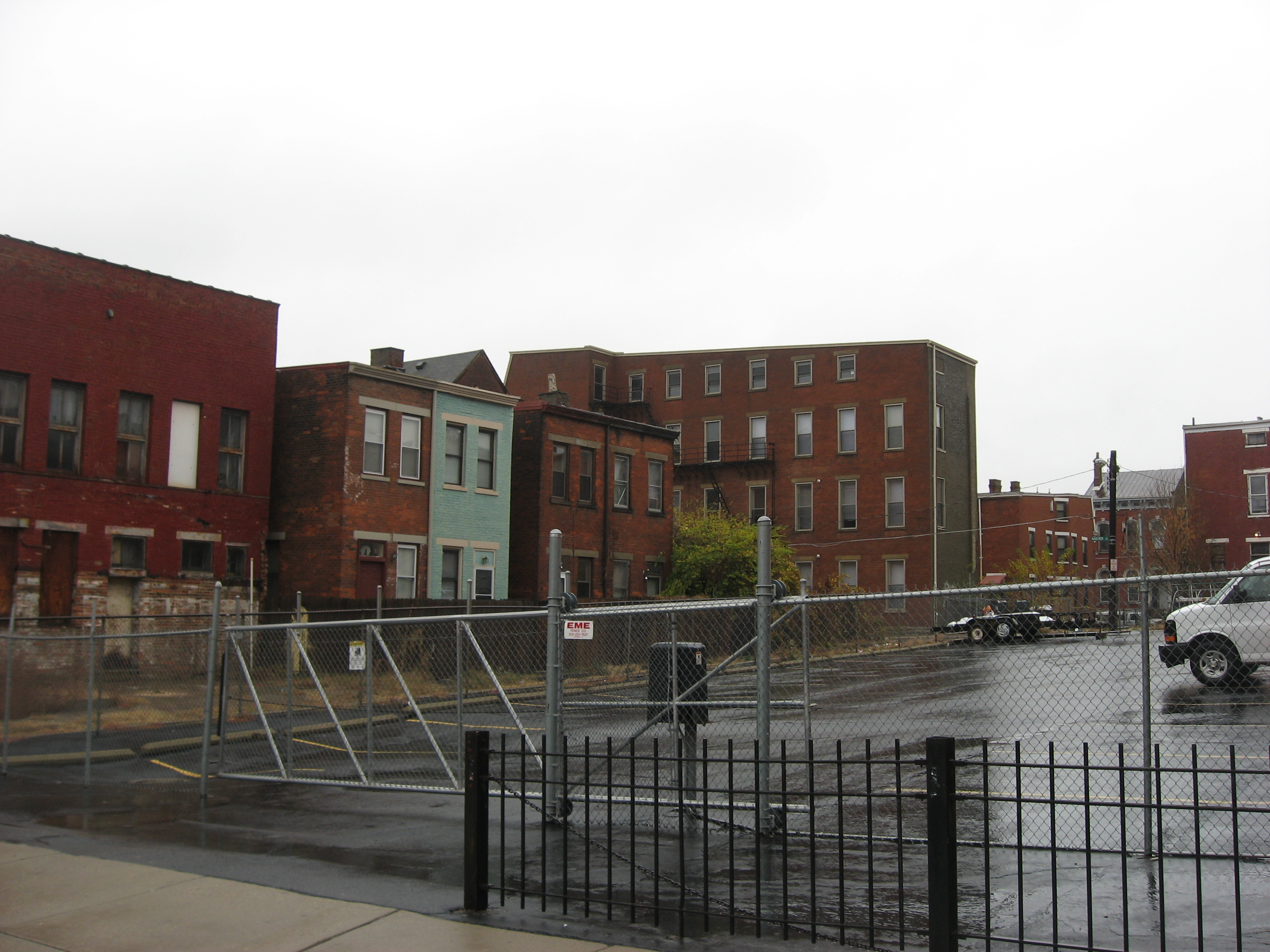 An empty lot at 1024-1026 York Street in the West End neighborhood of Cincinnati, Ohio, United States. This lot was formerly the location of Police Station No. 5; designed by Samuel Hannaford and built in 1896, it is listed on the National Register of Historic Places despite having been destroyed. The surrounding neighborhood is a part of a Register-listed historic district, the Dayton Street Historic District.